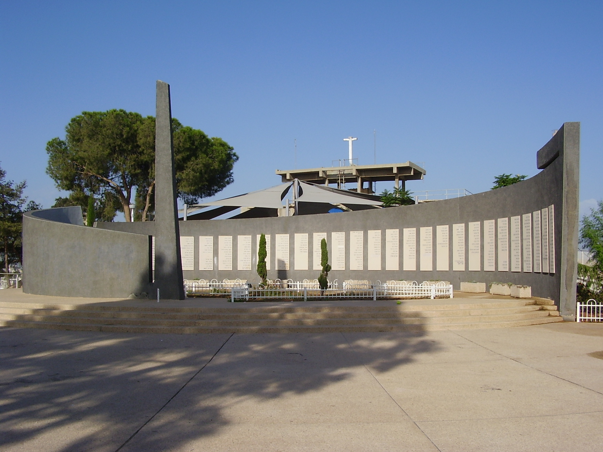 war memorial in bnei brak